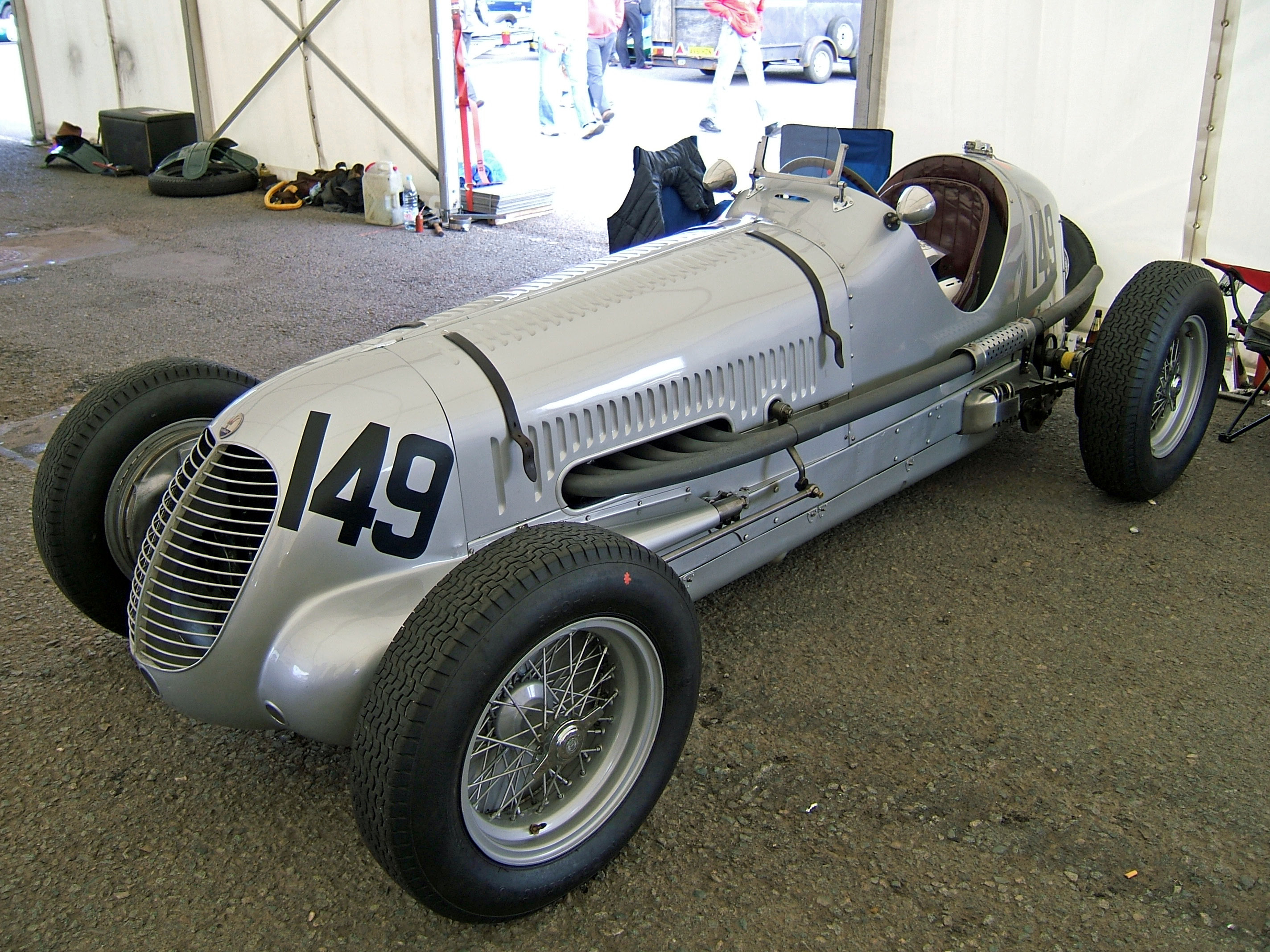 A Maserati 6CM waiting in the paddock of the VSCC SeeRed race meeting, Donington Park, September 2007.